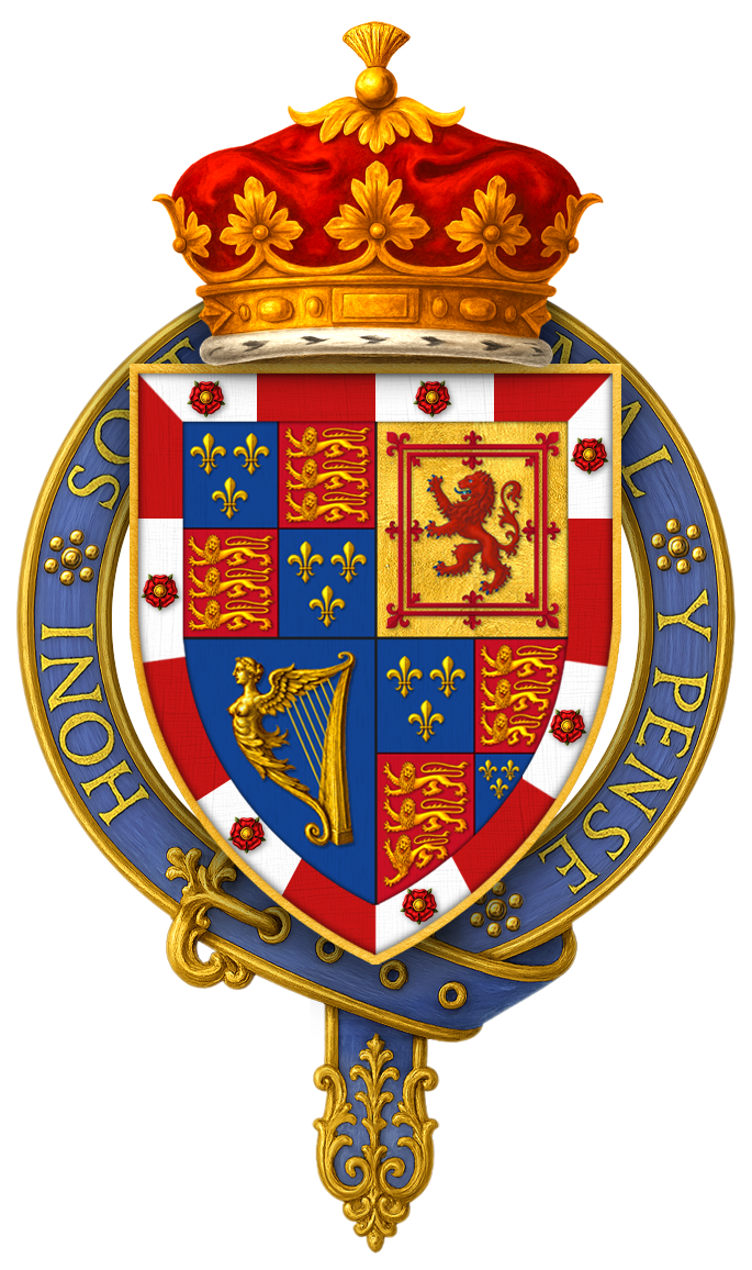 Coat of arms of Charles Lennox, 2nd Duke of Richmond and Lennox, KG, KB, PC, FRS